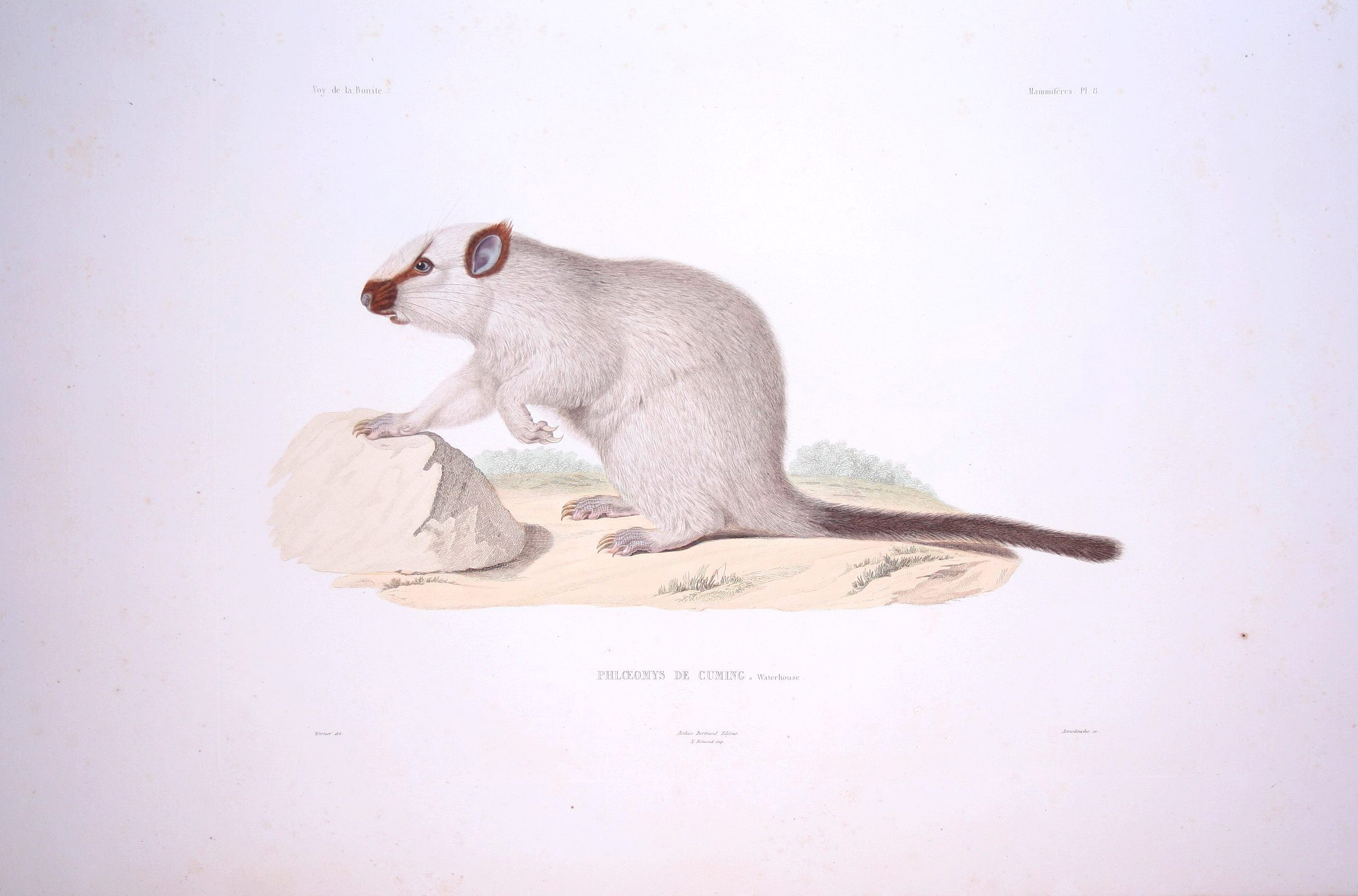 Zoology (mammals): Phloeomys pallidus. Mislabelled as Phloeomys cumingi in the original work from 1852. True P. cumingi are dark brown to reddish-brown, but this was the only Phloeomys species recognized at that time (i.e. all specimens were labelled as this species, regardless of colour). P. pallidus, which varies from all whitish to mottled whitish-and-black, was only recognized in 1890.